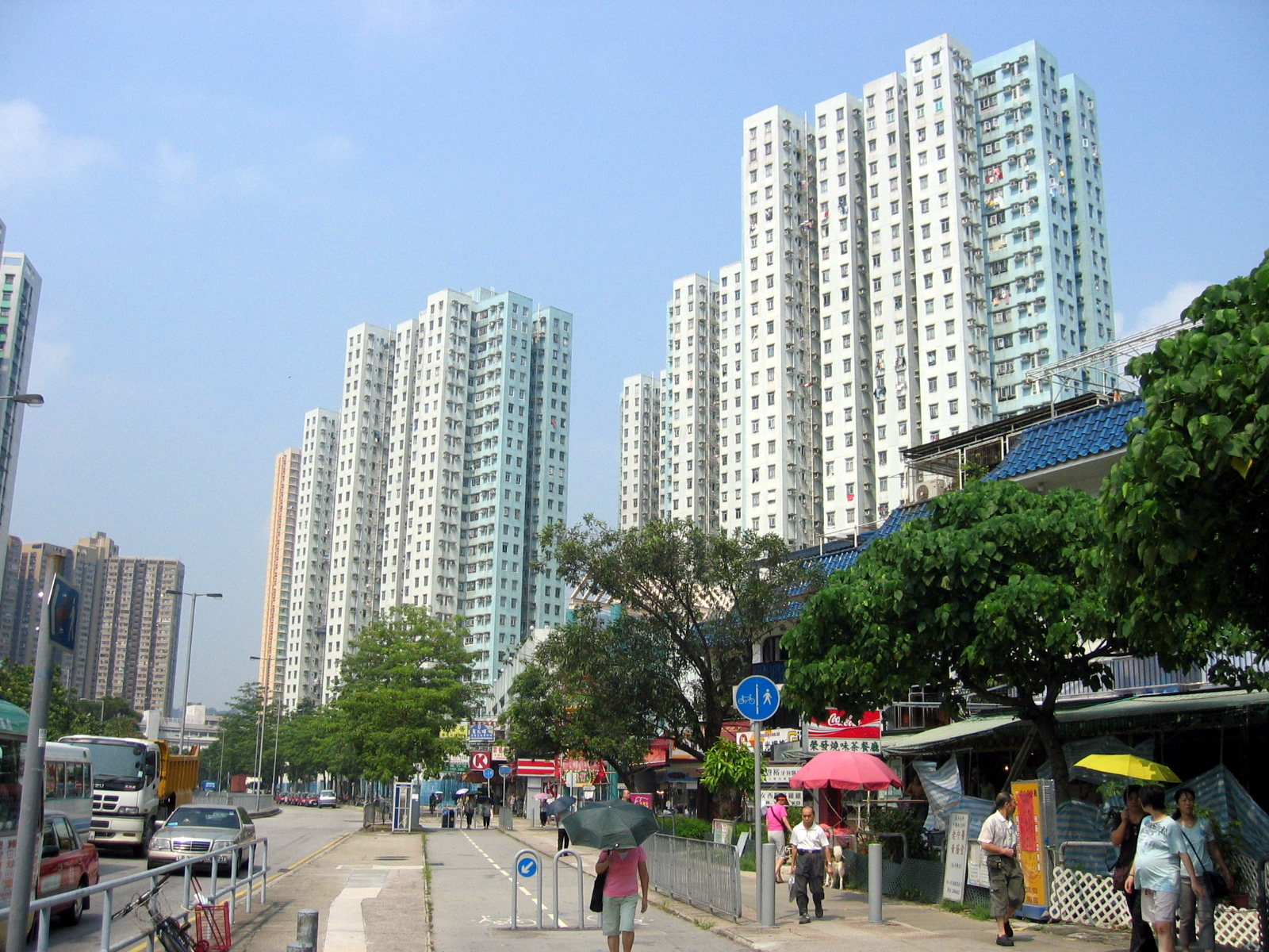 Hong Kong: Carado Garden housing estate, seen from Tin Sam Street. The blue-roofed low rise buildings on the right in the foreground belong to Tin Sam Village.